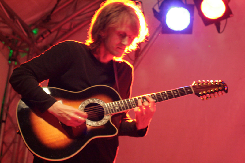 Andreas Wahl on guitar, Traumzeit Festival 2008